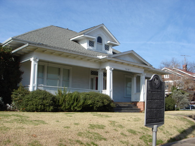 The Birthplace of Major General Claire L. Chennault